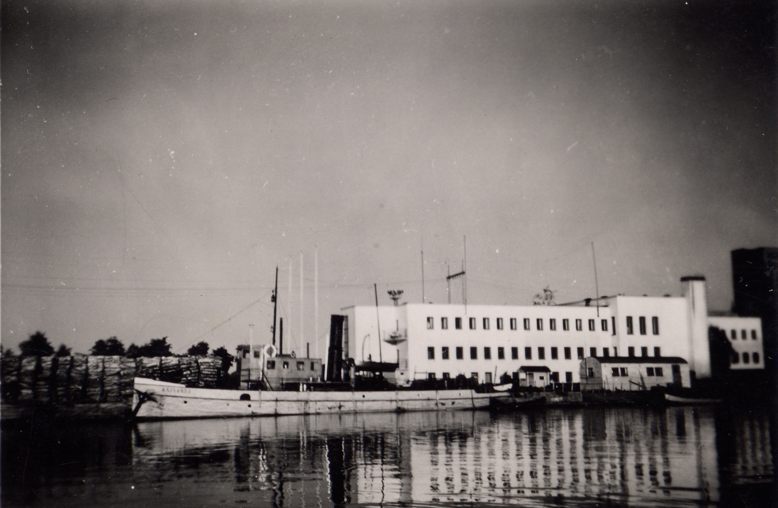 Ss Kajaani I beside Kajaani Corporation building